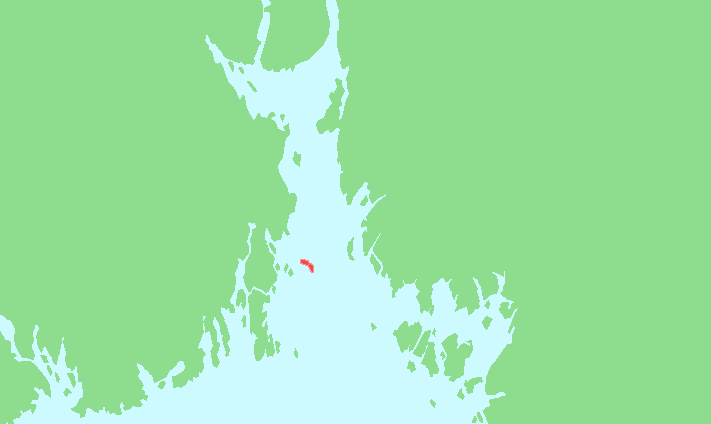 Locator map of Bolærne, Vestfold, Norway